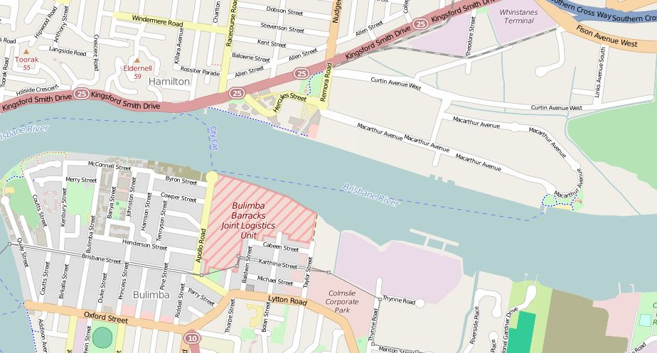 Open Street Map - Hamilton Reach, Brisbane River